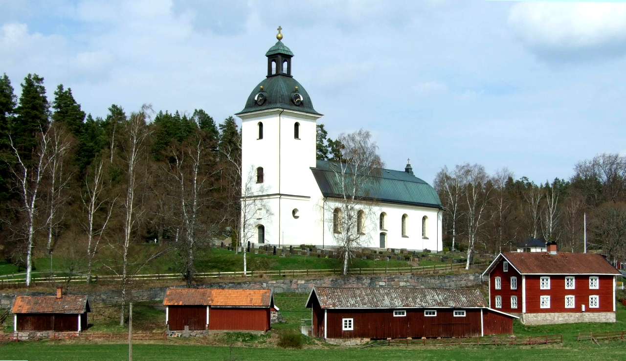 Tryserums church